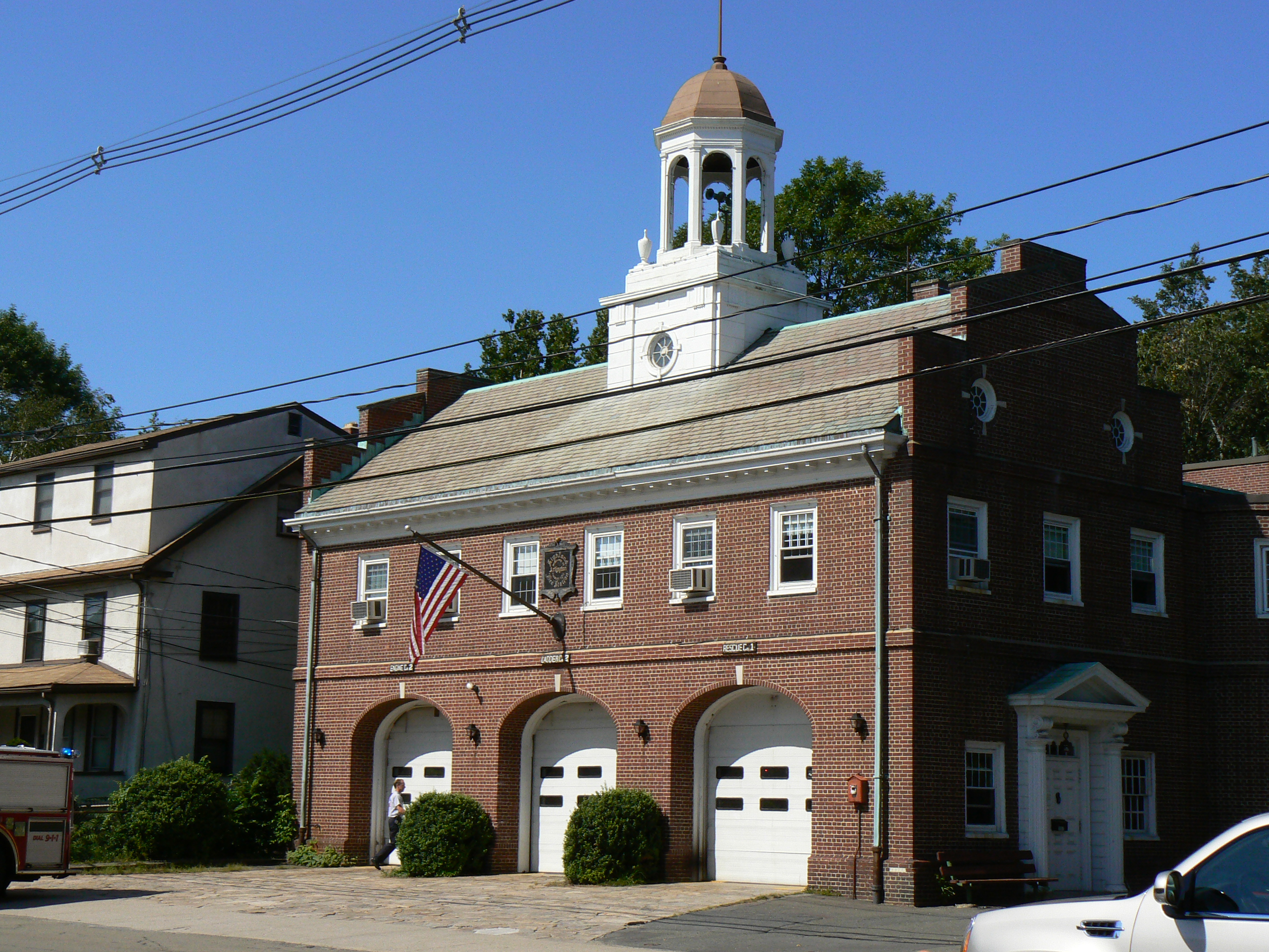 A photograph of the historic Highland Hose House fire station in Arlington.